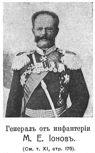 Ionov, Mikhael Yefremovich, general of the infantry RIA.